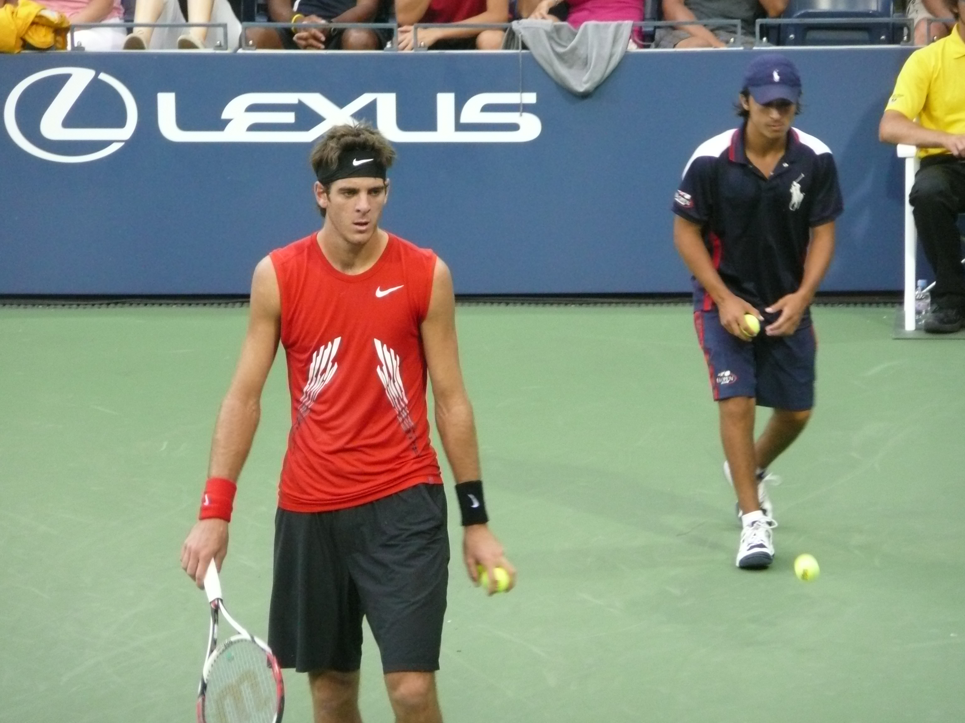 Juan Martin del Potro against Gilles Simon at the 2008 US Open